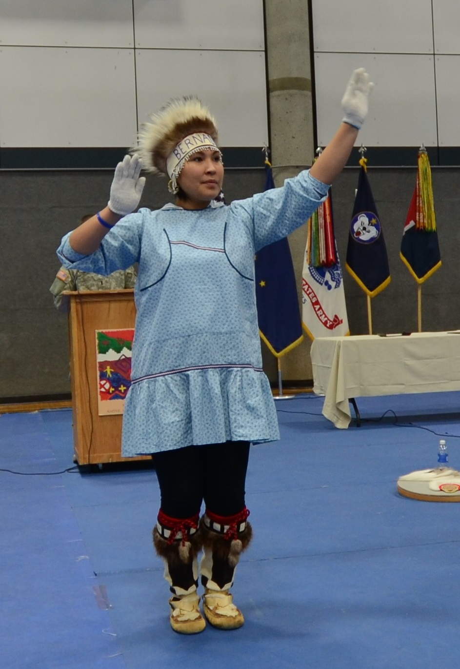 Bernadine Keyes from Kotlik, dancing with the University of Alaska, Fairbanks Inu-Yupiaq dance group performing at Fort Wainwright on November 26th, 2013 during Alaska Native Heritage Month